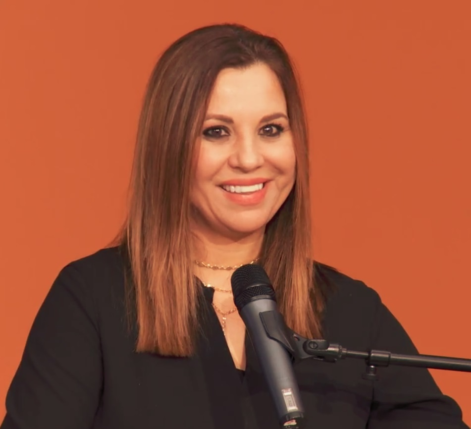 Jasmin Darznik, author of the New York Times bestselling book The Good Daughter, reads and discusses her new novel Song of a Captive Bird. This story is based on the life of Iran’s most iconic and controversial female poet Forough Farrokhzad. She was a revolutionary, Sylvia Plath-like figure who gave Iranian women permission to be bold, angry and rapturous.